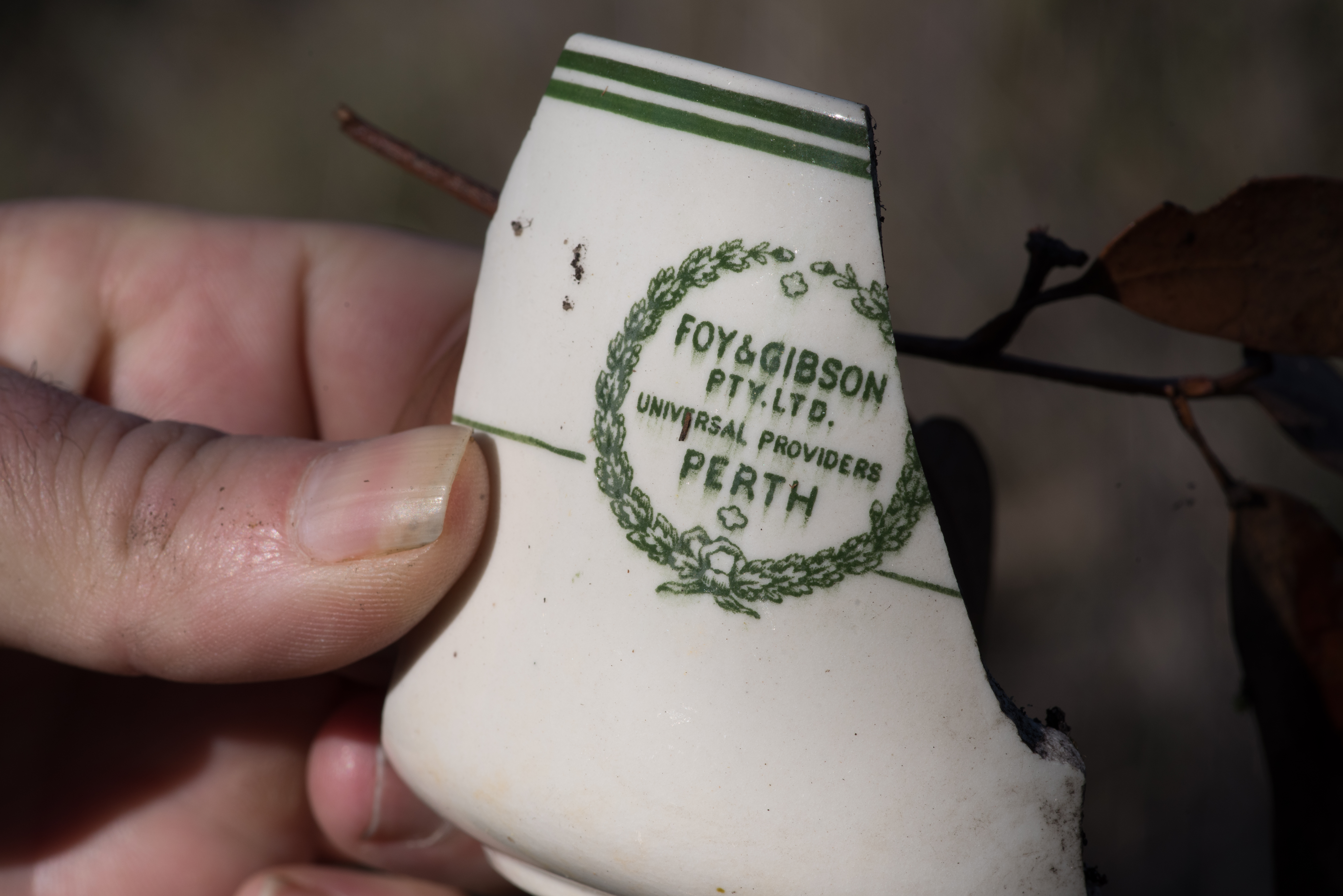 broken cup from Foy & Gibson(Perth) made May 1937 manufactured by Grindley Hotelware